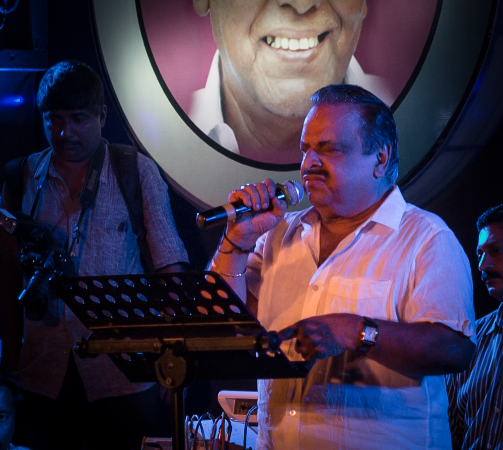 P. Jayachandran is a South Indian playback singer from Kerala. This picture is shot at 7th Death Anniversary Concert of Devarajan Master the renowned music director of India